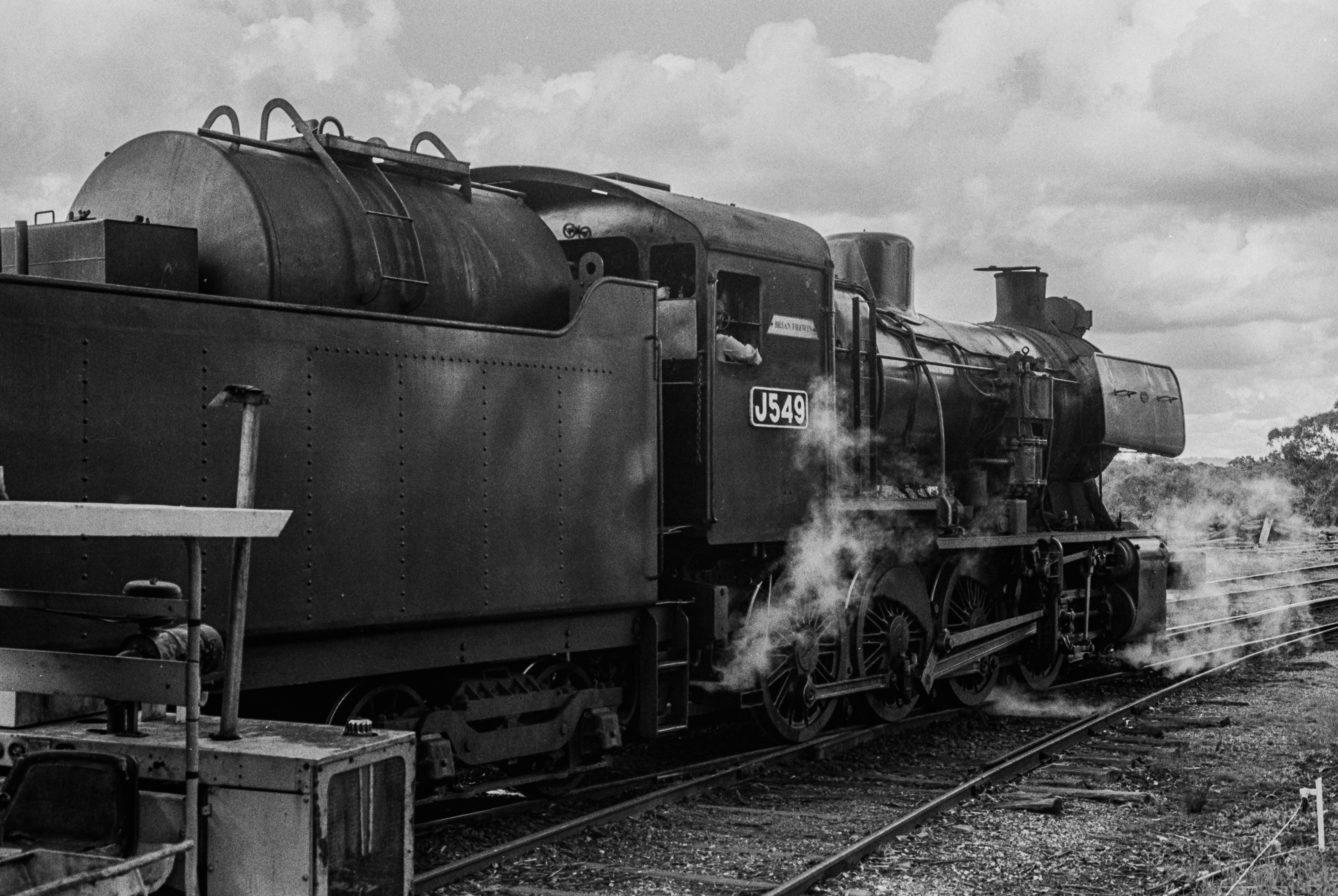 Locomotive J549, operated by the Victorian Goldfields Railway, preparing to depart from Maldon train station.